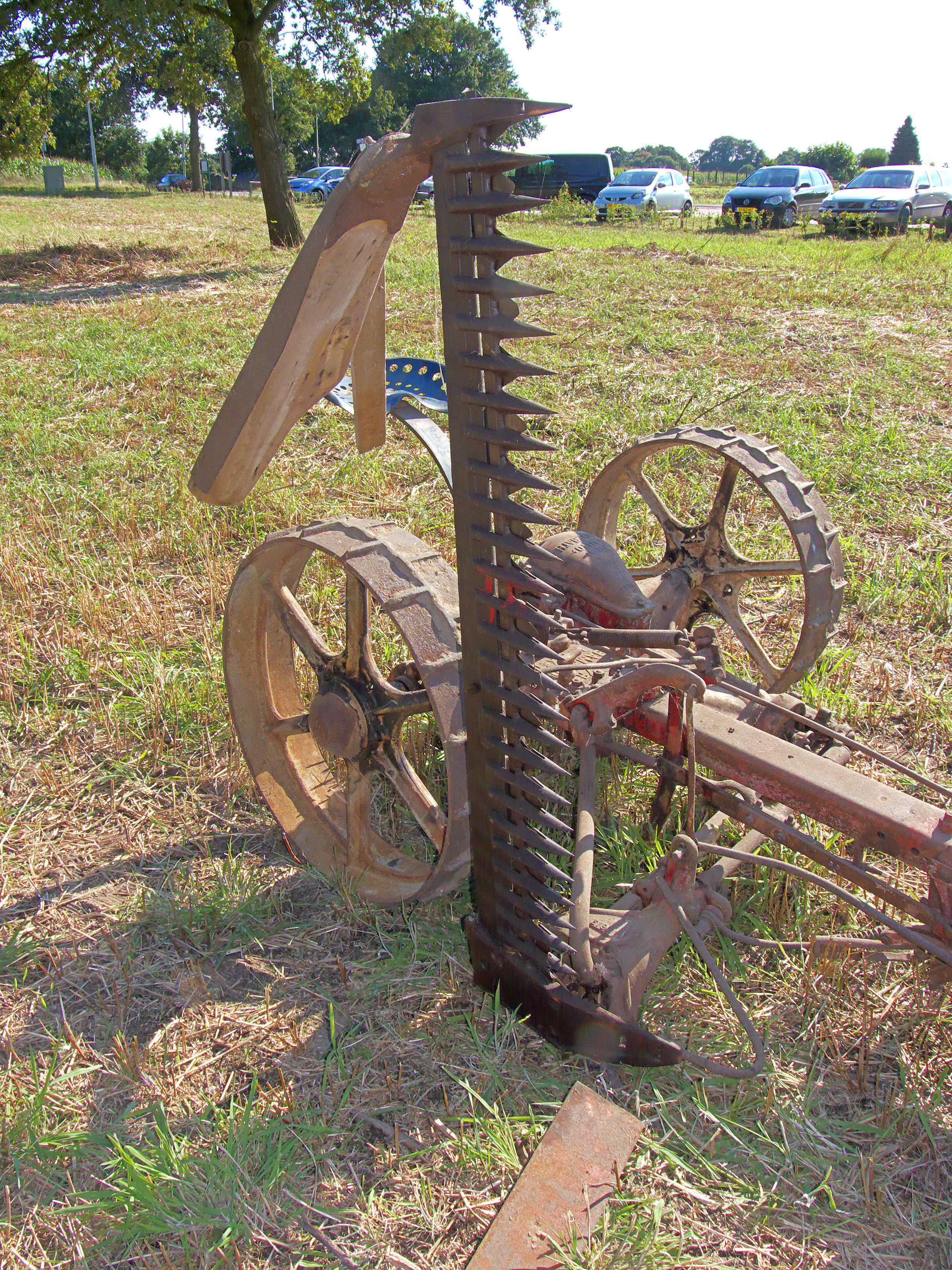 Windrower